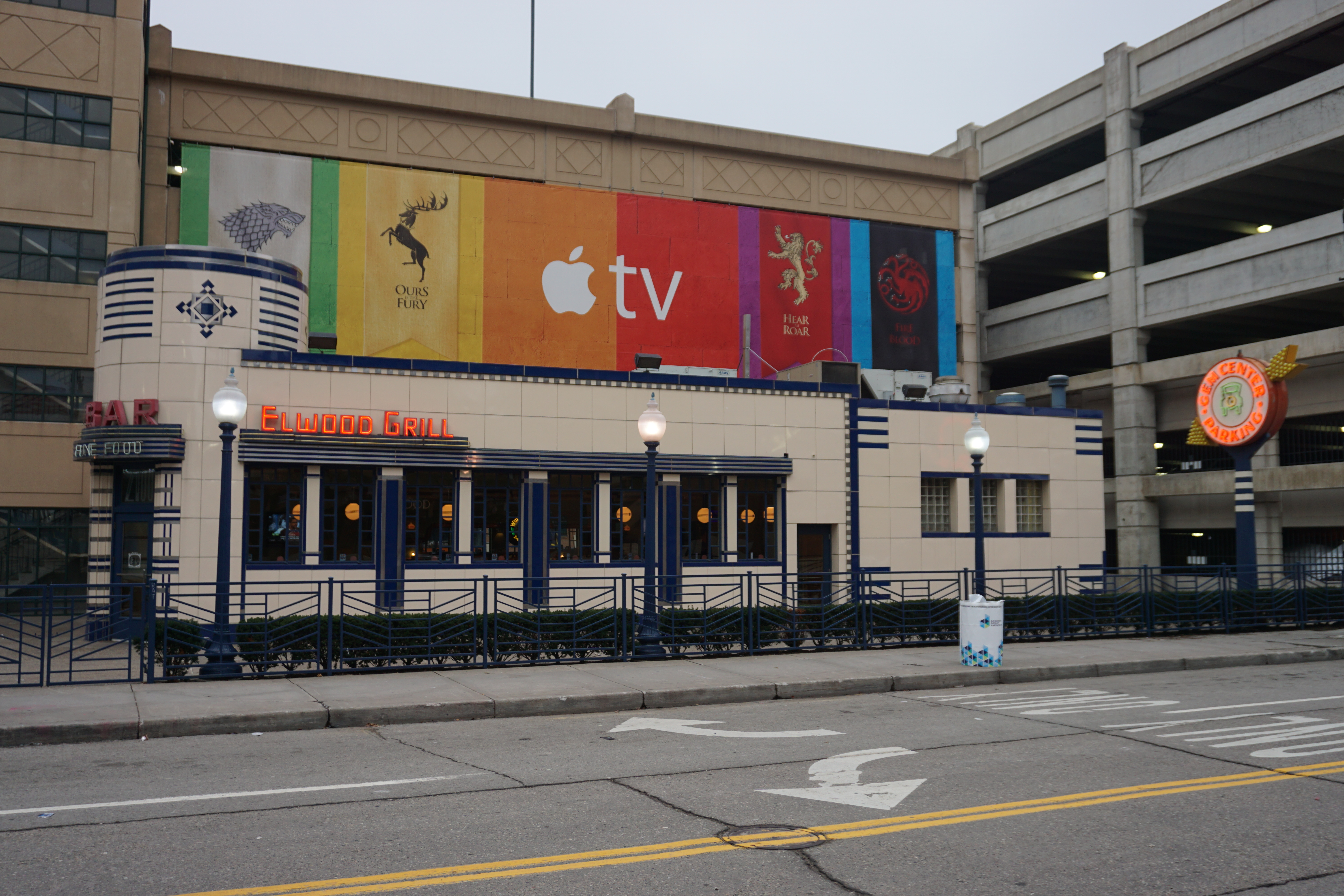 The Elwood Bar in Detroit, Michigan (United States).